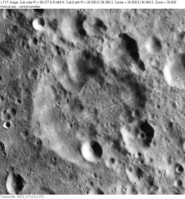 Riccius lunar crater - image LO-IV-083H LTVT.